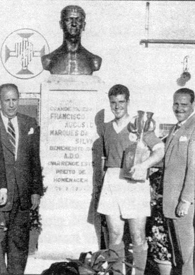 Parque Marques da Silva Inauguration